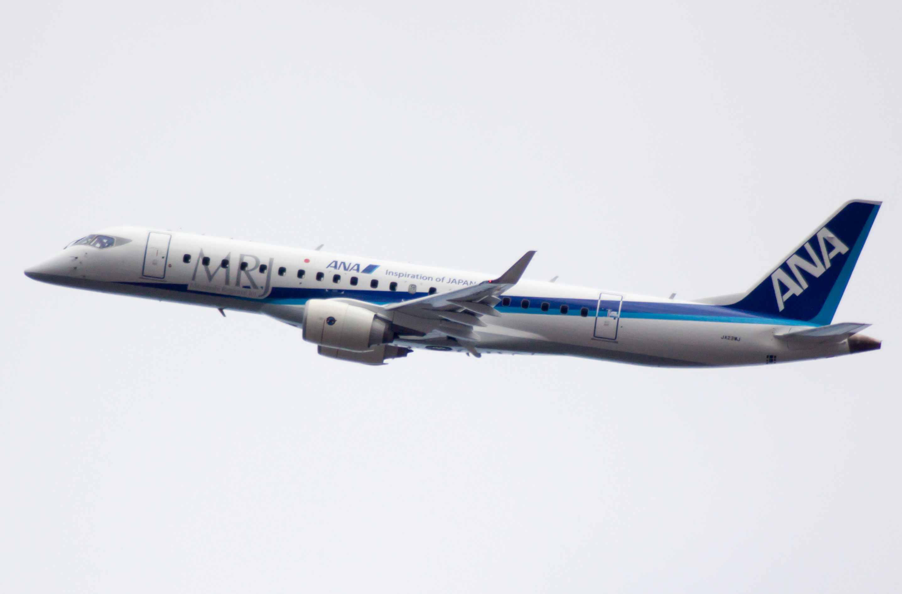 A Mitsubishi Regional Jet (registration JA23MJ) in ANA-colours preparing for a demonstration flight at Farnborough Airshow 2018.